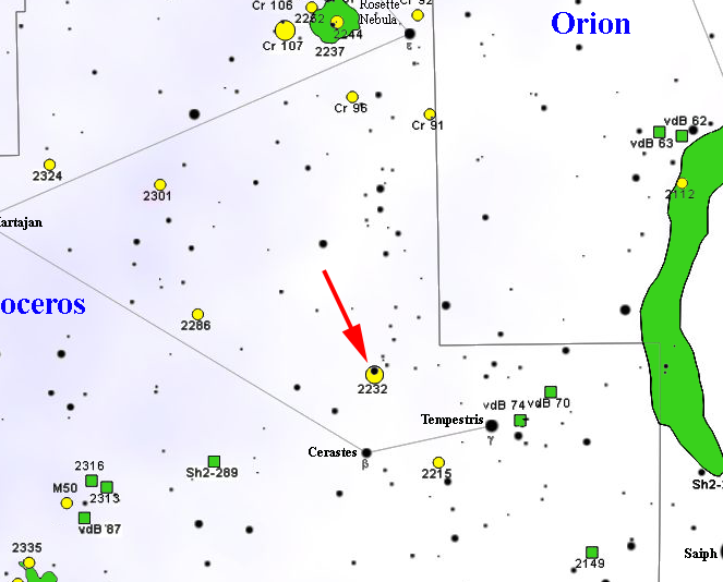 Map of NGC 2232